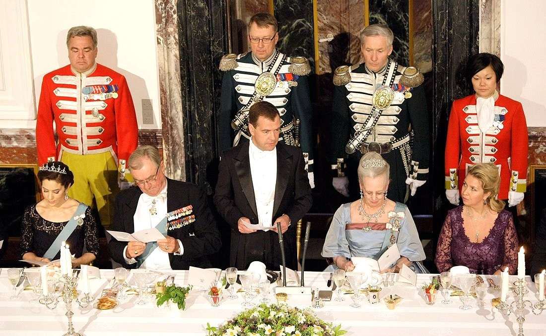 At a reception in Fredensborg Palace.